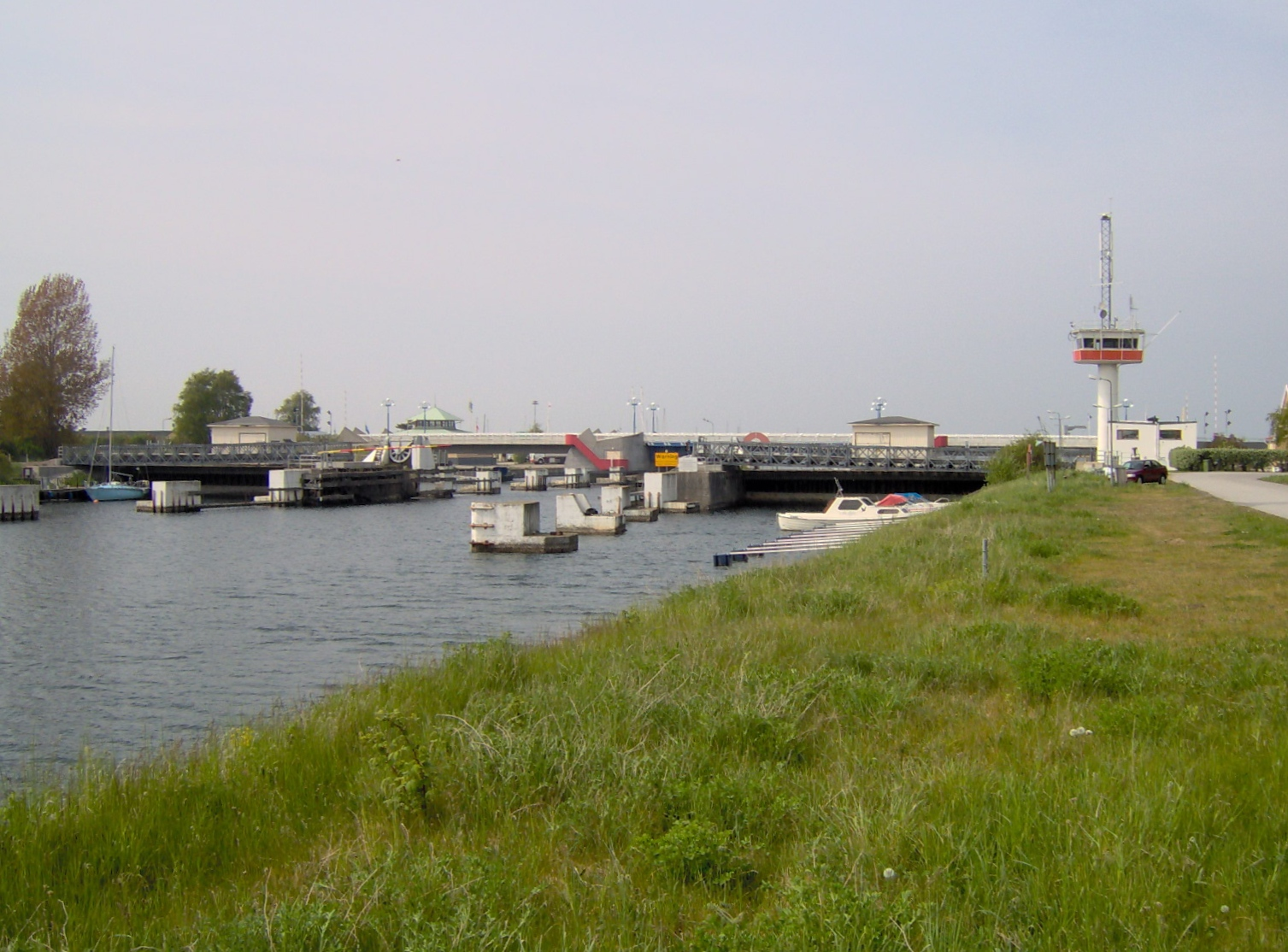 Bridge over Falsterbo canal Source: taken by user may 22nd 2005, rotated by User:Daedalus